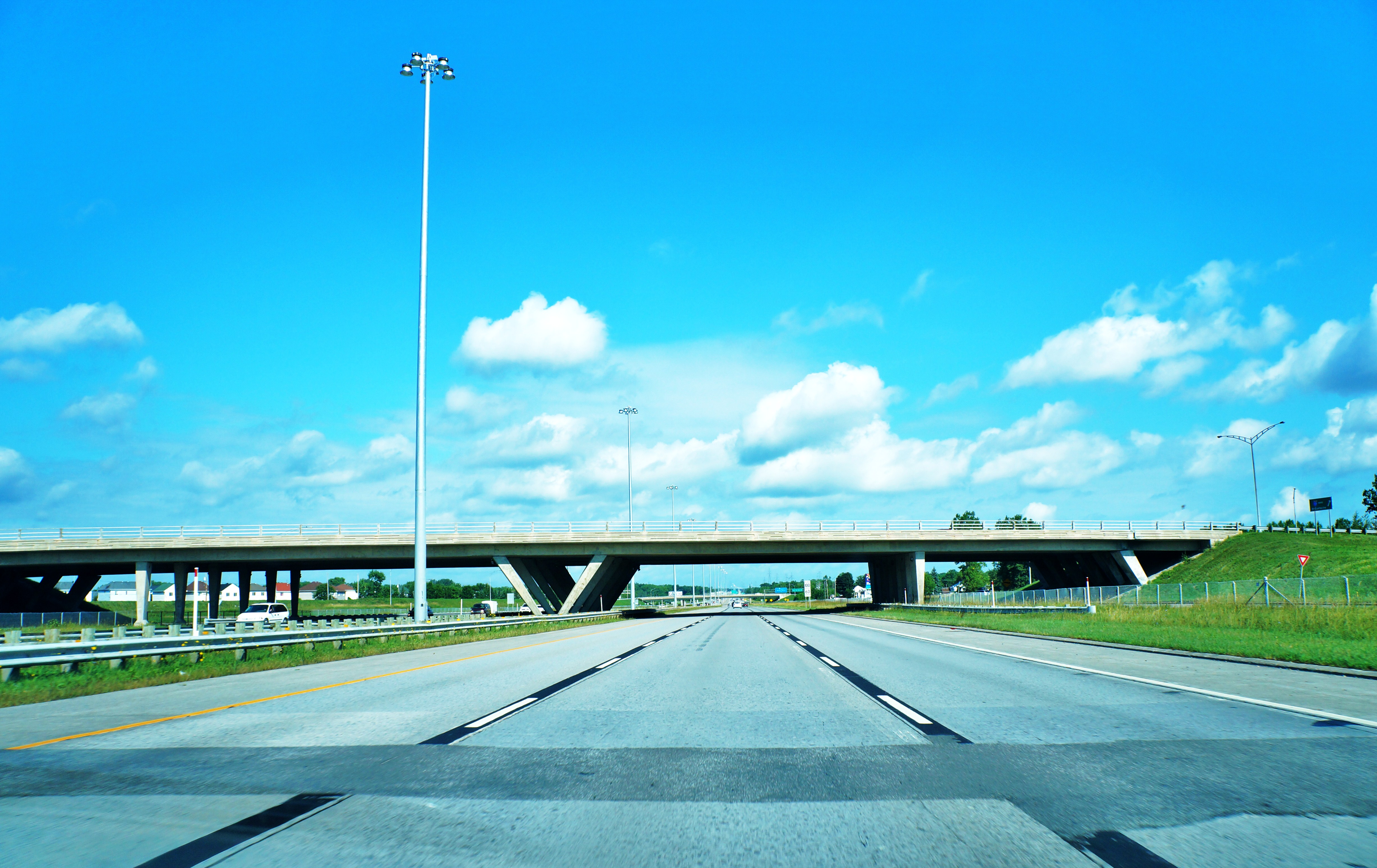 Highway 13 north to St. Jerome